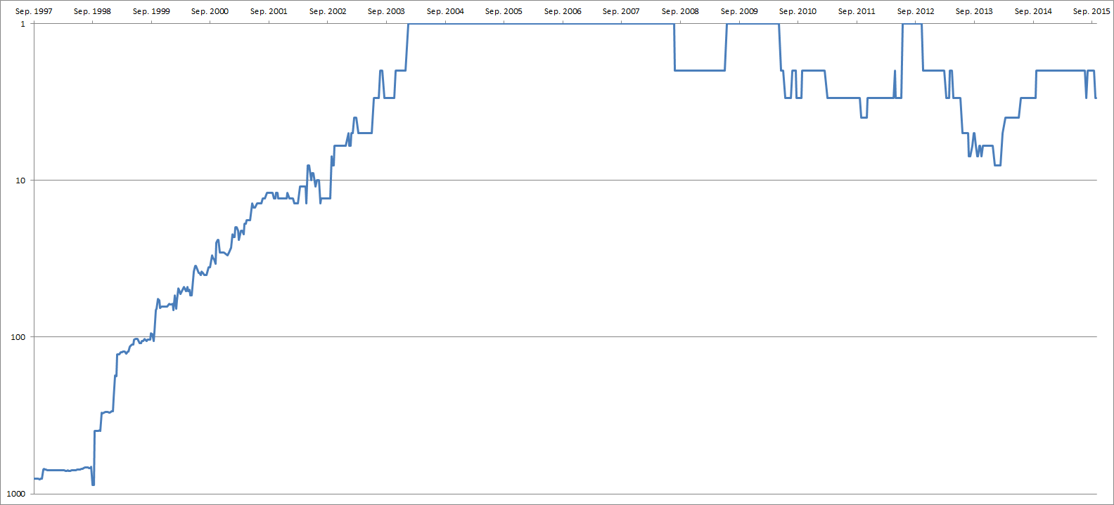 Overview of Roger Federer's single rankings